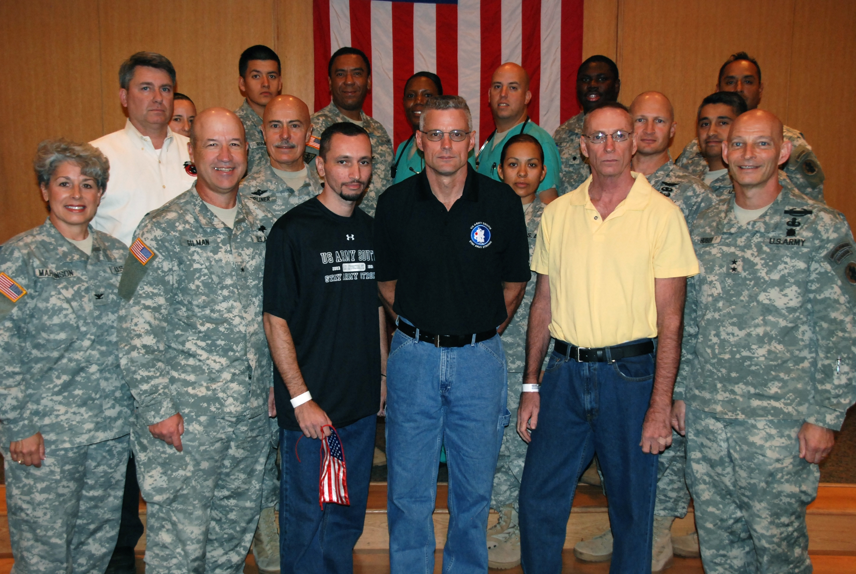 Brooke Army Medical Center, Fort Sam Houston, Texas (July 4, 2008) -- Marc Gonsalves, Keith Stansell and Thomas Howes (left to right, center), freed July 2 after more than five years of captivity in Colombia, stand with Col. Wendy Martinson, Garrison Commander of Fort Sam Houston; Brig. Gen. James Gilman, Commander of Brooke Army Medical Center; and Maj. Gen. Keith M. Huber, Commander of U.S. Army South; and members of their staffs.